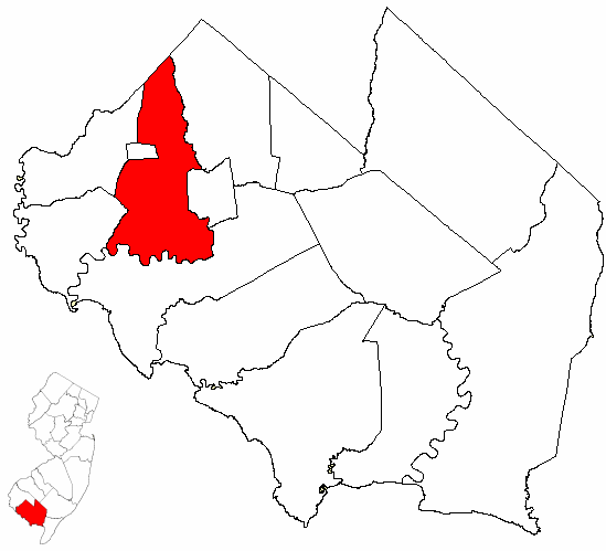 Map of Cumberland County highlighting Hopewell Township